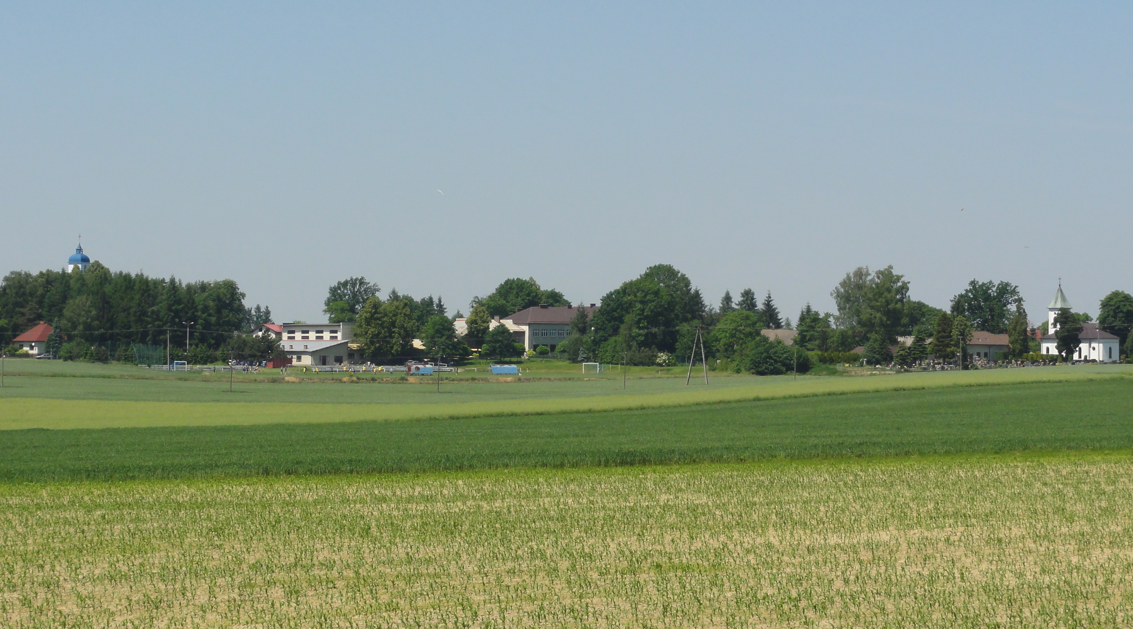 Pruchna, Panorama z południa